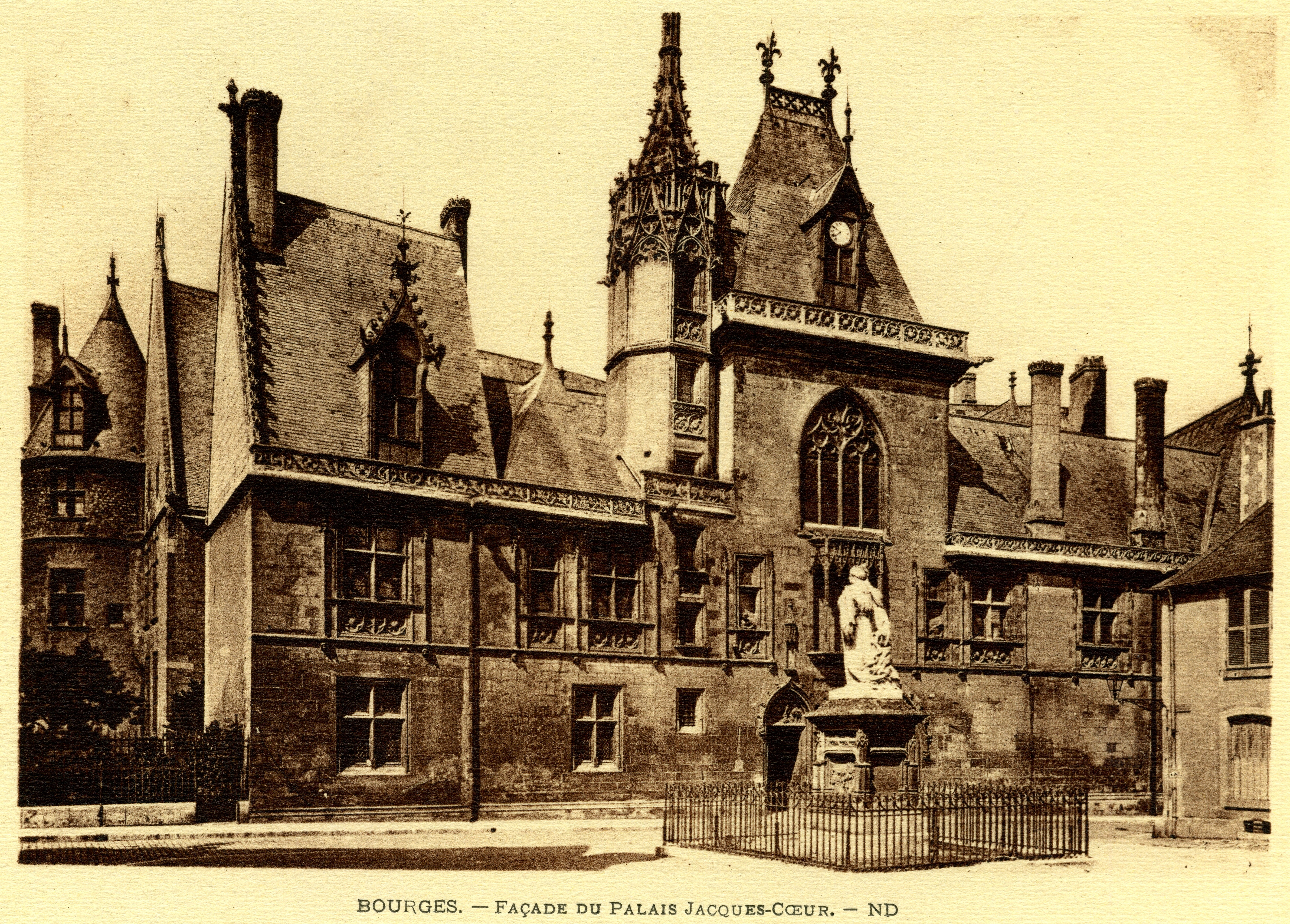 Bourges, France. Fassade of Palais Jacques-Cœur. Heliogravure. Publishing house Michel Lévy frères (LL).